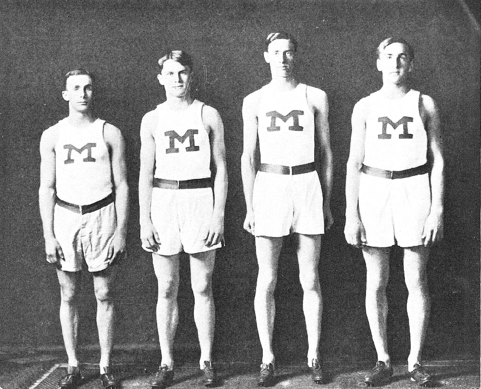 Photograph Michigan Four-Mile Relay Team: J.W. Maloney, H.P. Ramey, Harry Coe, Floyd Rowe